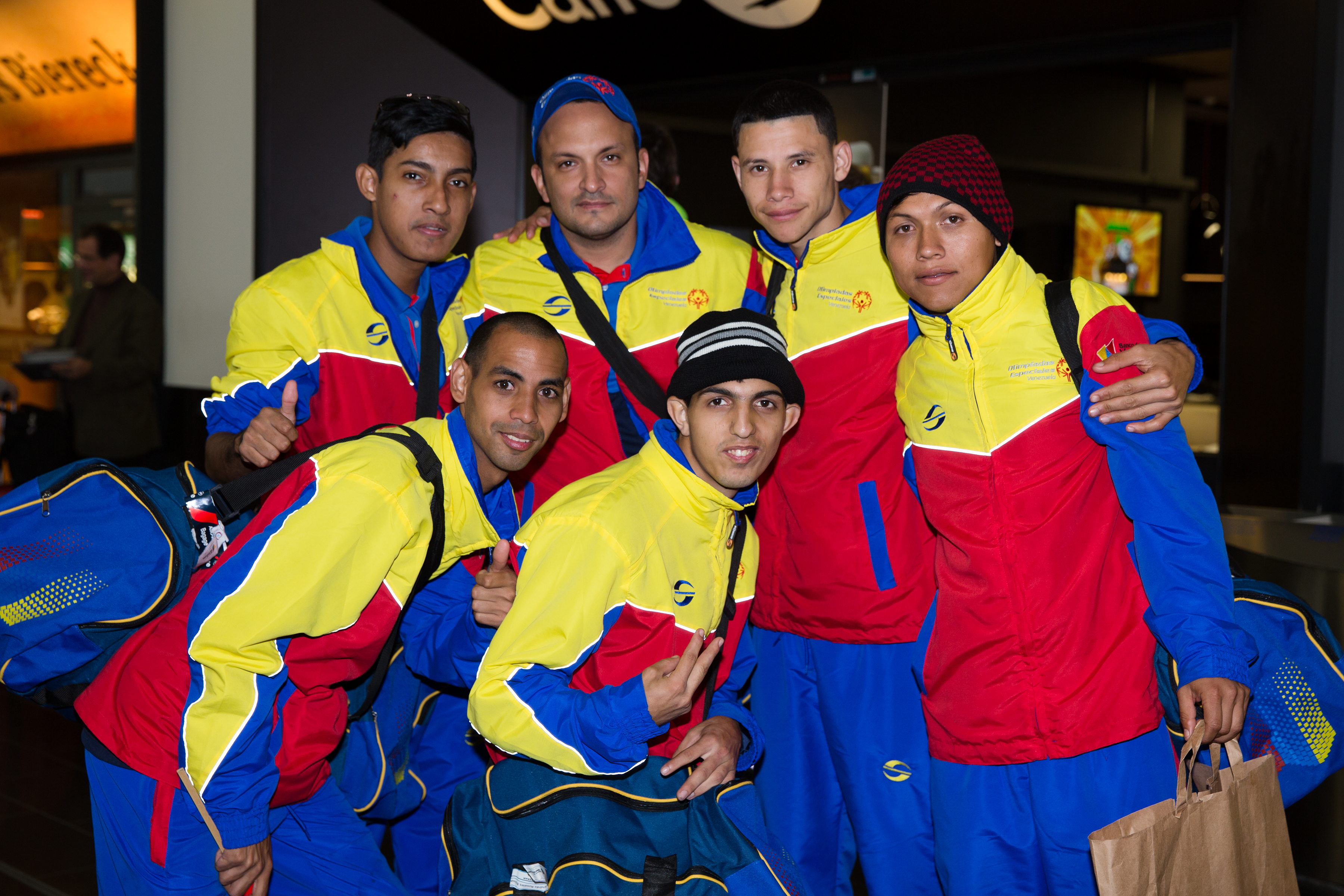 Arrival and greeting of the delegation from Venezuela, the floorball team in this picture, for the 2017 Special Olympics World Winter Games at Vienna International Airport.